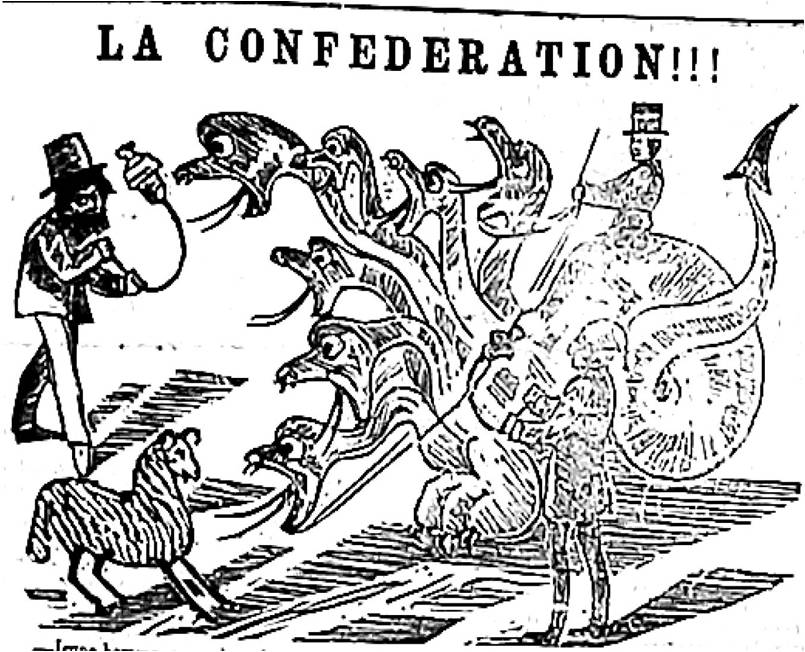 Political cartoon by Canadian cartoonist Jean-Baptiste Côté. It depects Canadian Confederation as a nine-headed dragon. It appeared in the stirical newspaper La Scie on 2 December 1864.